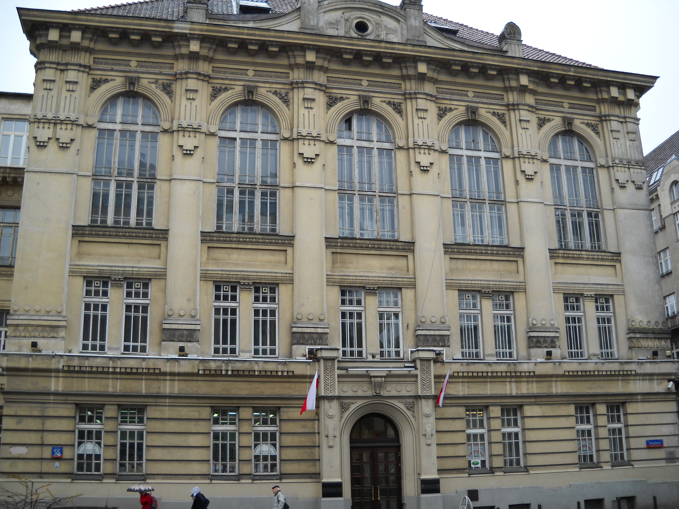 Faculty of Architecture Warsaw University of Technology